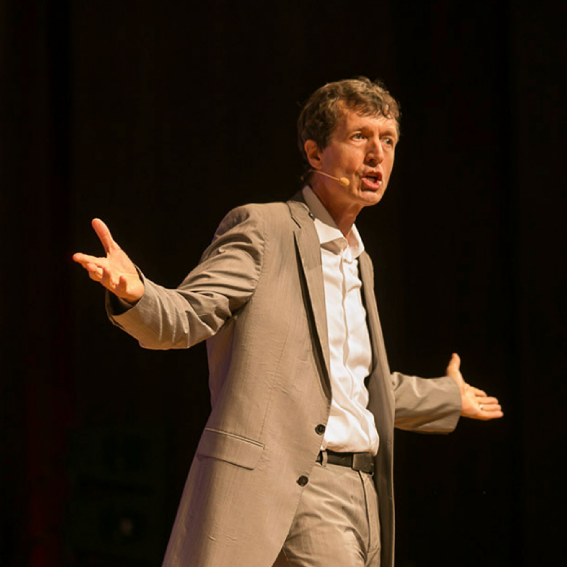 Speech Michael Rossié